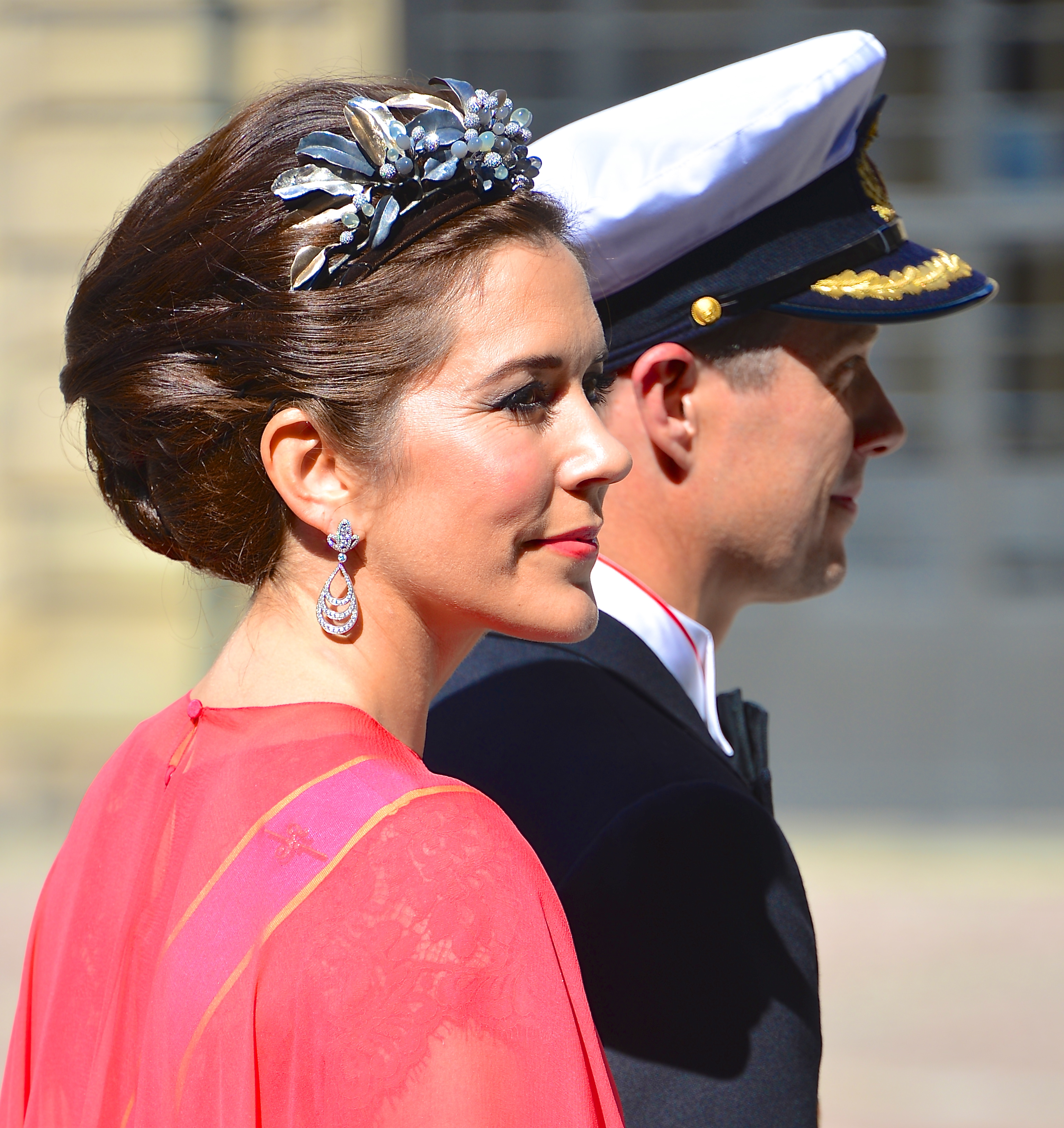 Frederik, Crown Prince of Denmark and Mary, Crown Princess of Denmark on the way to the castle church at the Royal Palace in Stockholm before the wedding between Princess Madeleine and Christopher O'Neill June 8, 2013.